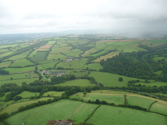 Mid Devon : River Exe, Woodland, Sewage Works & Aerial Scenery